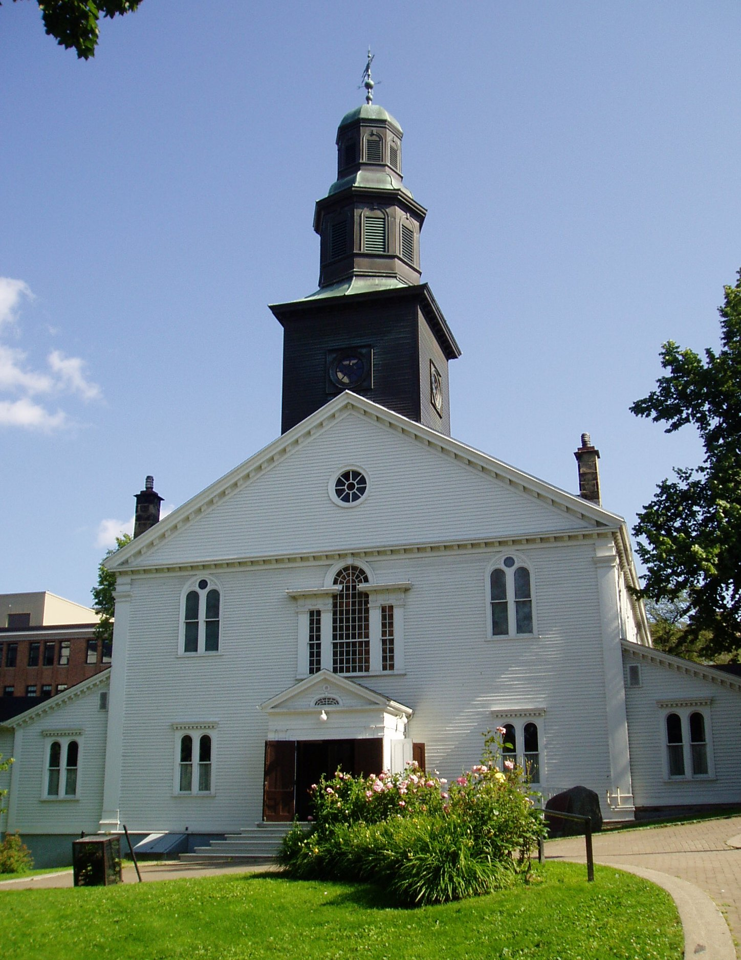 St. Paul's Church, Halifax, Nova Scotia, Canada. Taken by SimonP